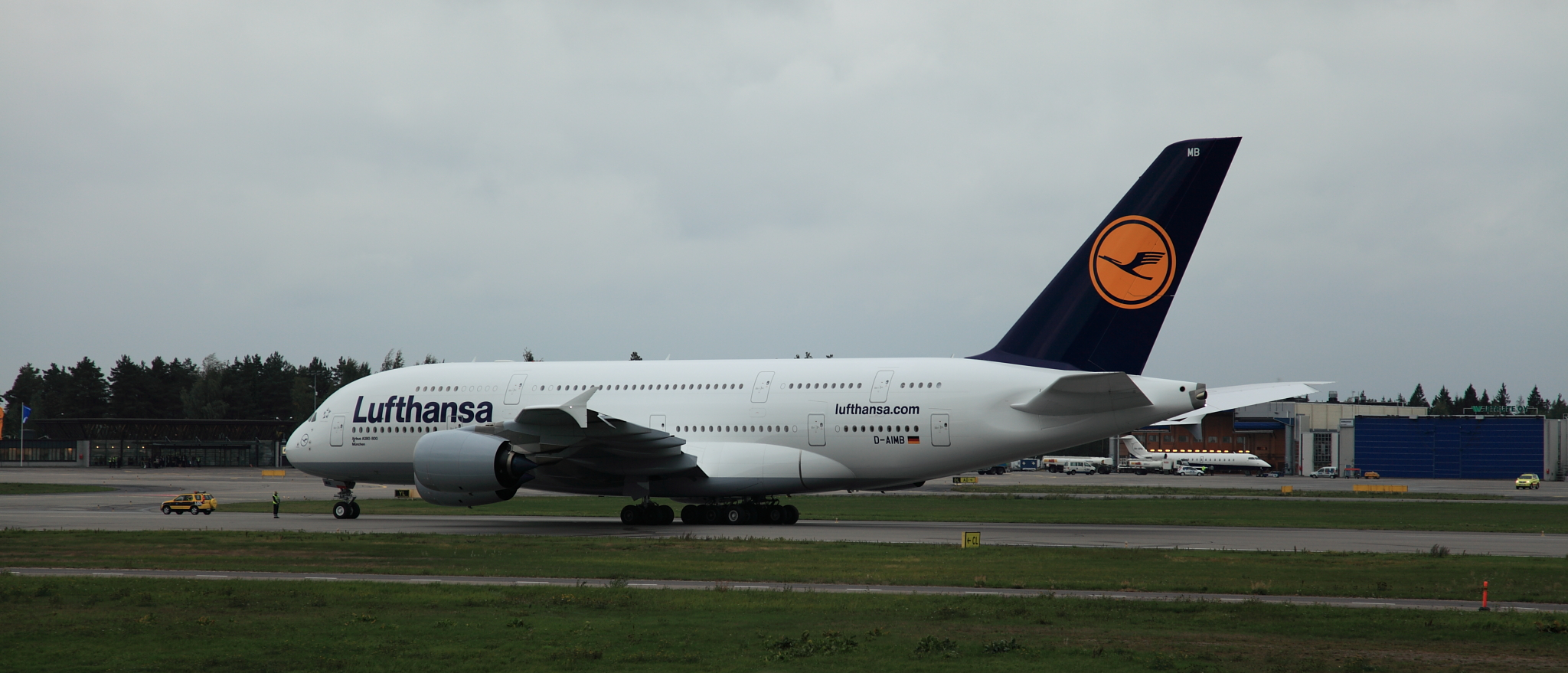 Lufthansa's Airbus A380-800 at Helsinki-Vantaa Airport, Finland